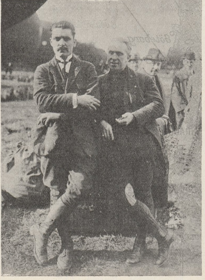 Gordon Bennett Cup in ballooning 1923. Winners. Ernest Demuyter (left) and Leon Coeckelbergh